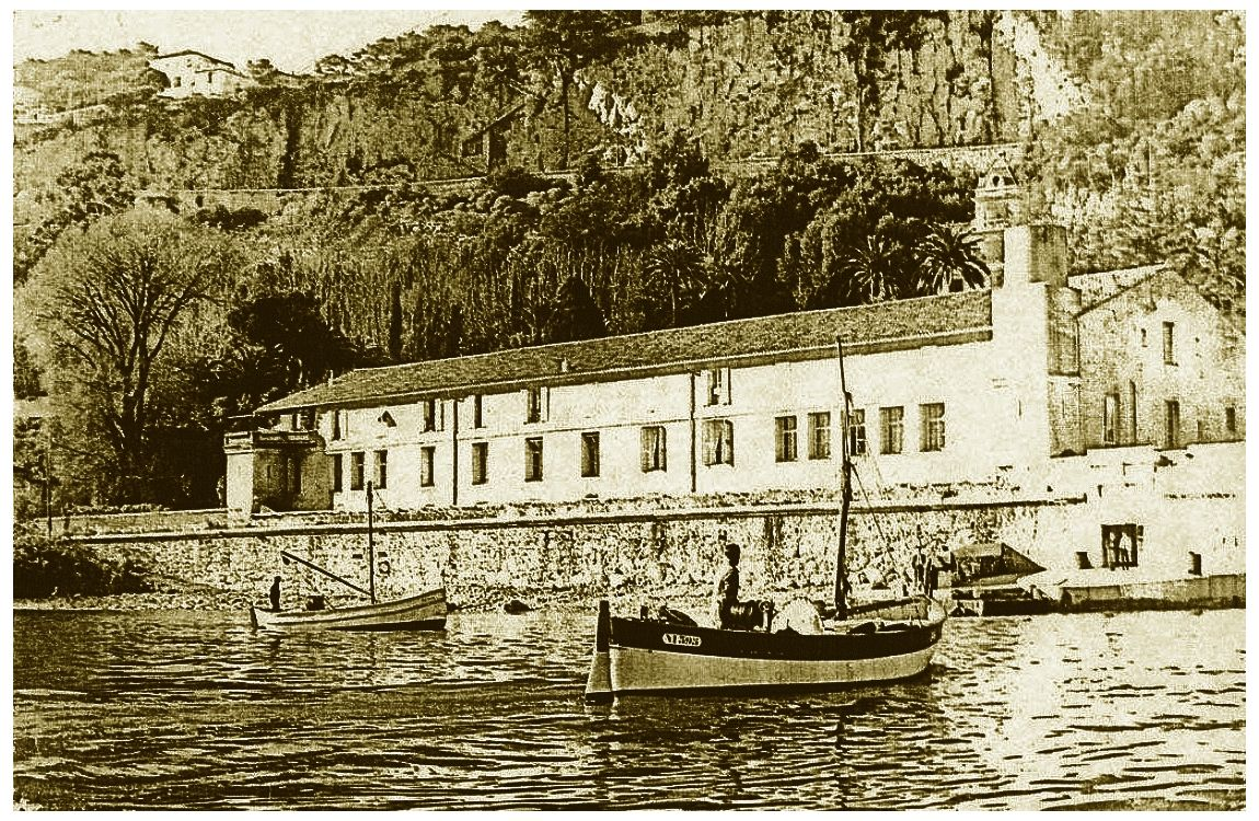 The biological station at Villefranche-sur-mer, Alpes-Maritimes, France.)